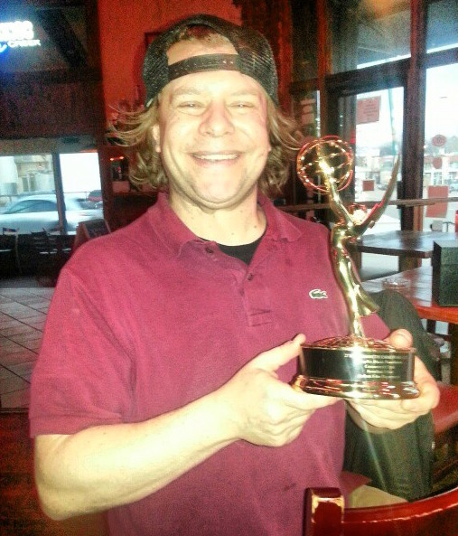 Jonathan with his 2013 Emmy Award